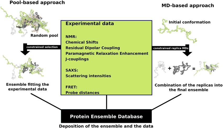 Pool-based ensemble modeling (left) starts by generating a pool of random or semi-random conformations based on the protein sequence. Subsets of conformations are selected iteratively from the pool and theoretical parameters are calculated for each conformer in the subset. The final ensemble consists of conformations for which the theoretical parameters are in agreement with the experimental data. MD-based approaches start by initiating short replica MD simulations in parallel using an initial conformation. The MD replicas are constrained with the experimental data. The final ensemble is a combination of the resulting replica runs.